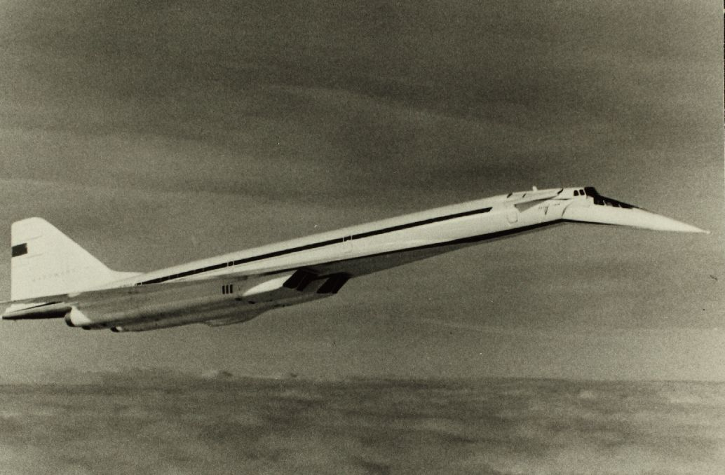 Catalog #: 01_00089179 Manufacturer: Tupolev Designation: Tu-144 Official Nickname: Charger Notes: USSR Repository: San Diego Air and Space Museum Archive Tags: Tupolev, Tu-144, Charger, USSR